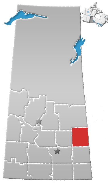 Saskatchewan census area No. 09